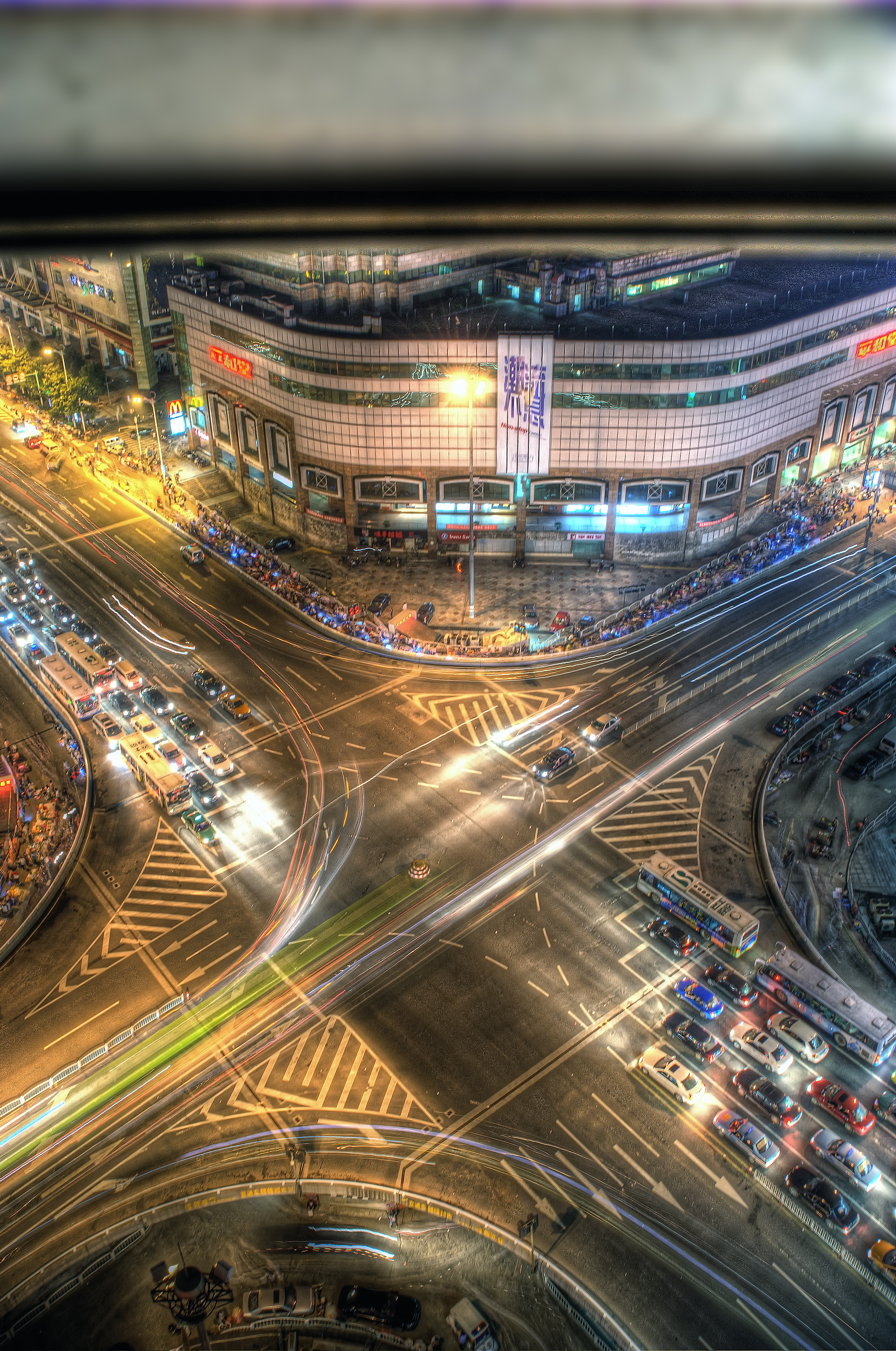 Intersection in Hunan, China.